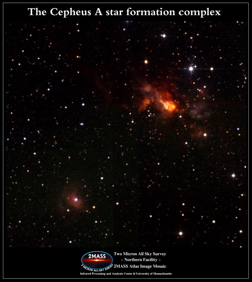 Cepheus A, near Cepheus OB3 association